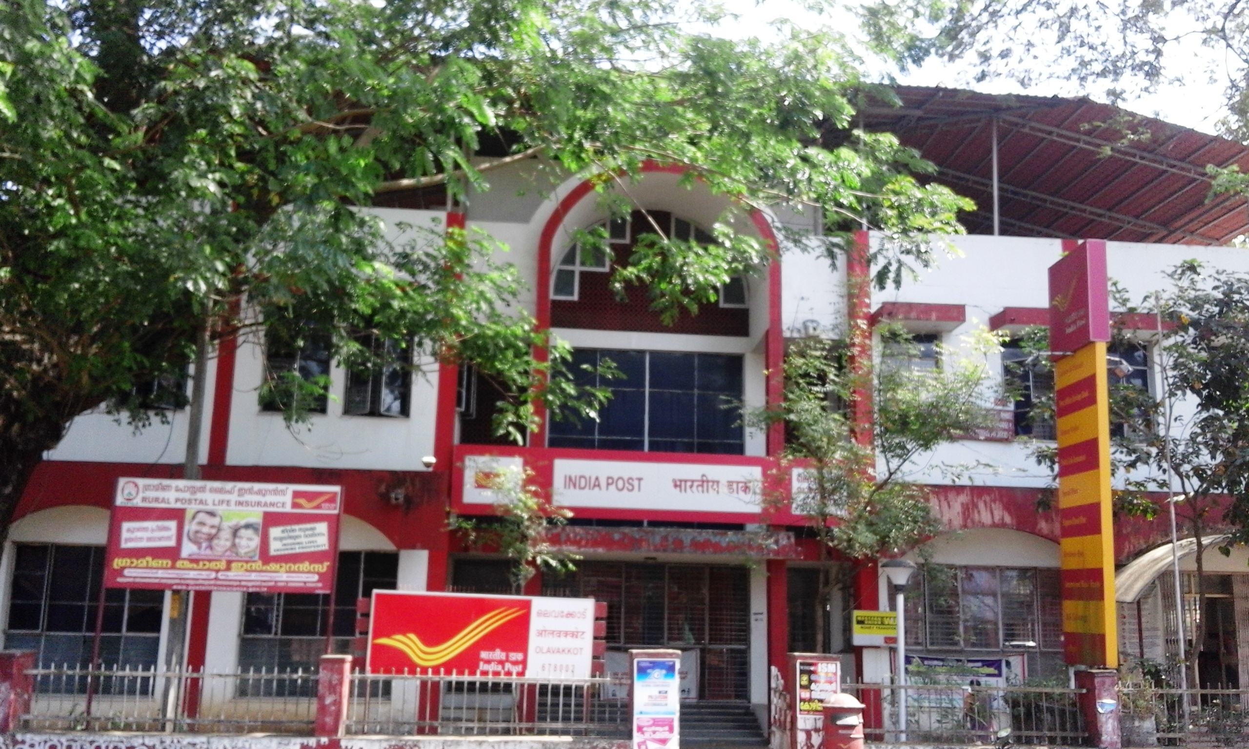 Olavakkod, Palakkad District, India.